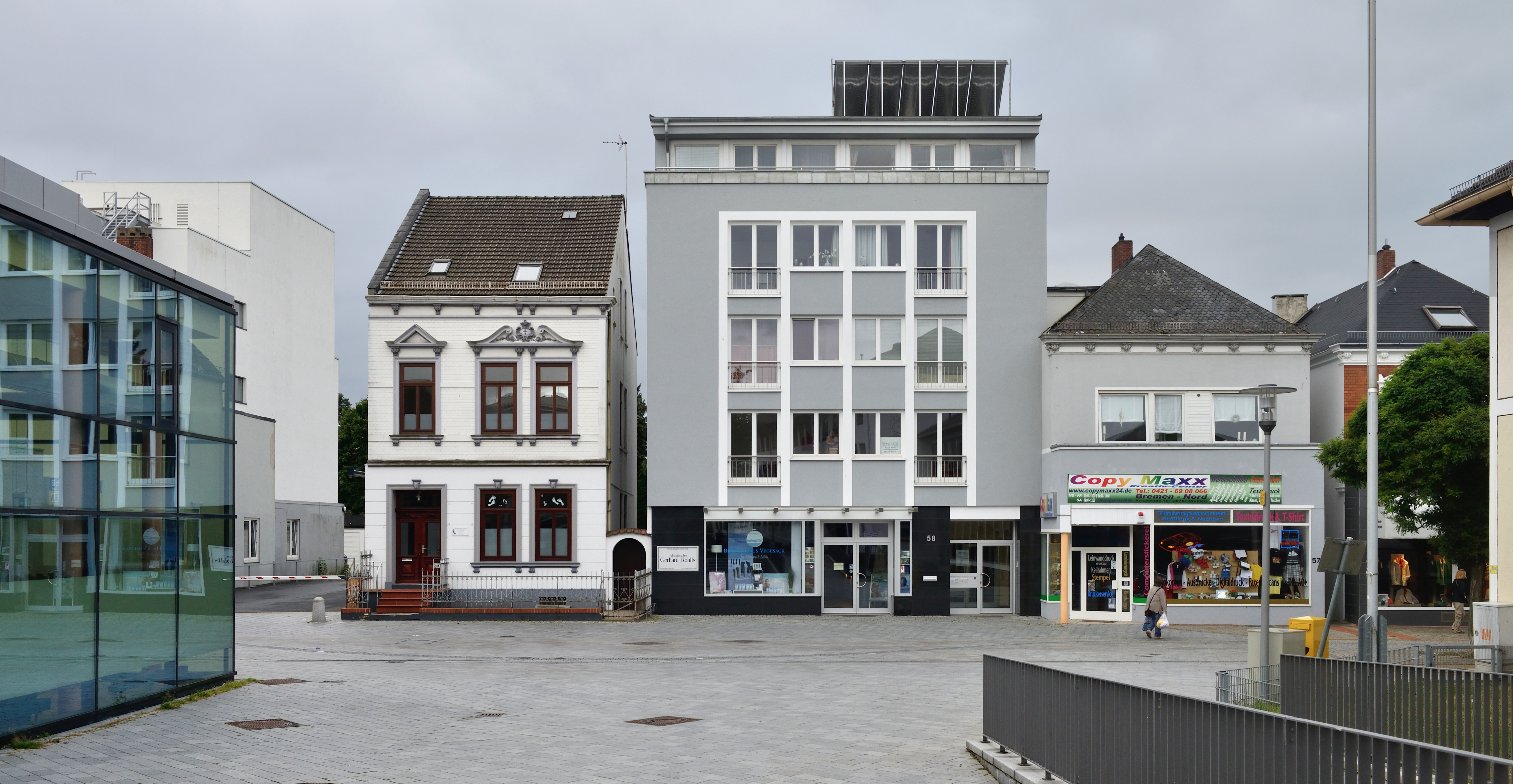 Bremen-Vegesack, Gerhard-Rohlfs-street, nr 58, with a plaque commemorating the place where the birthhouse of Friedrich Gerhard Rohlfs (1831-1896) was located.